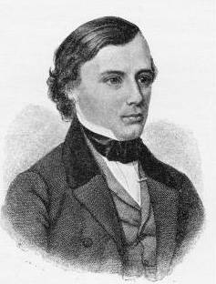 Lev Mei (1822-1862), Russian poet